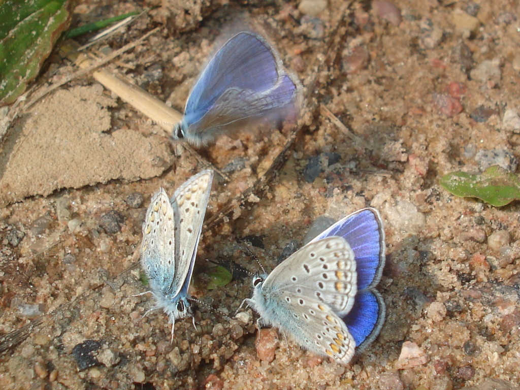 The Common Blue (Polyommatus icarus)